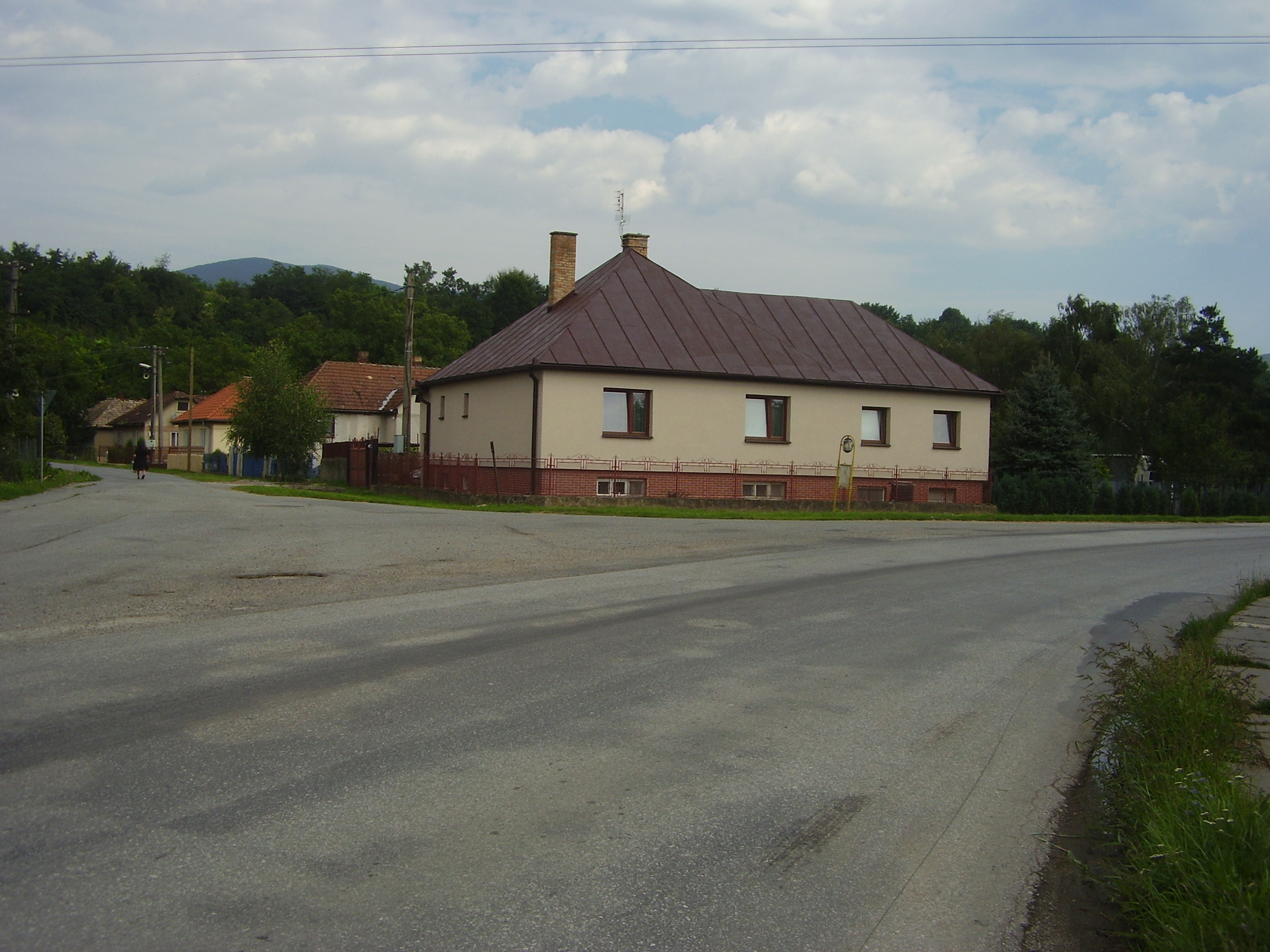 Square in Nižná Myšľa near Košice